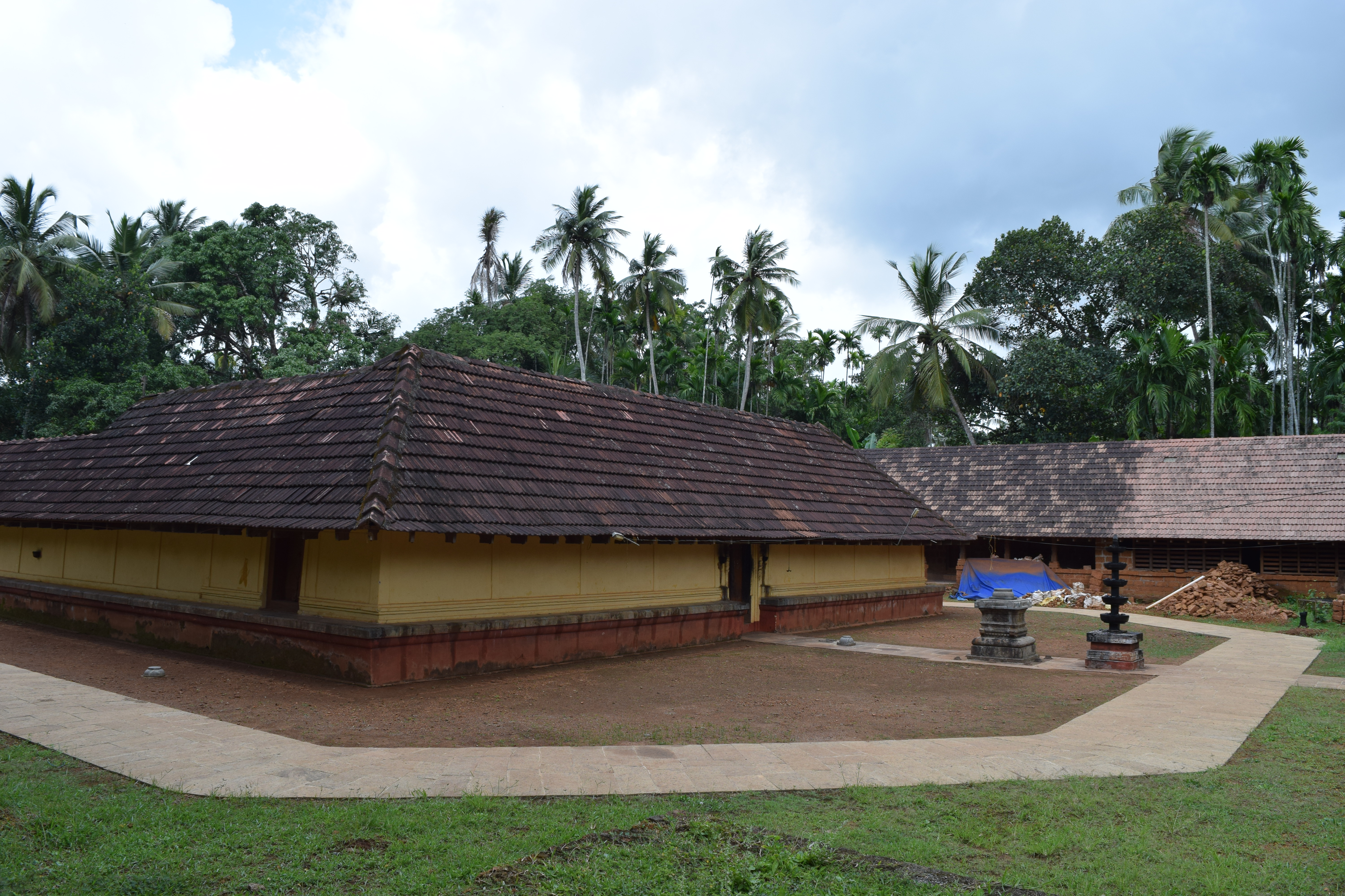 Pallimanna Siva temple complex